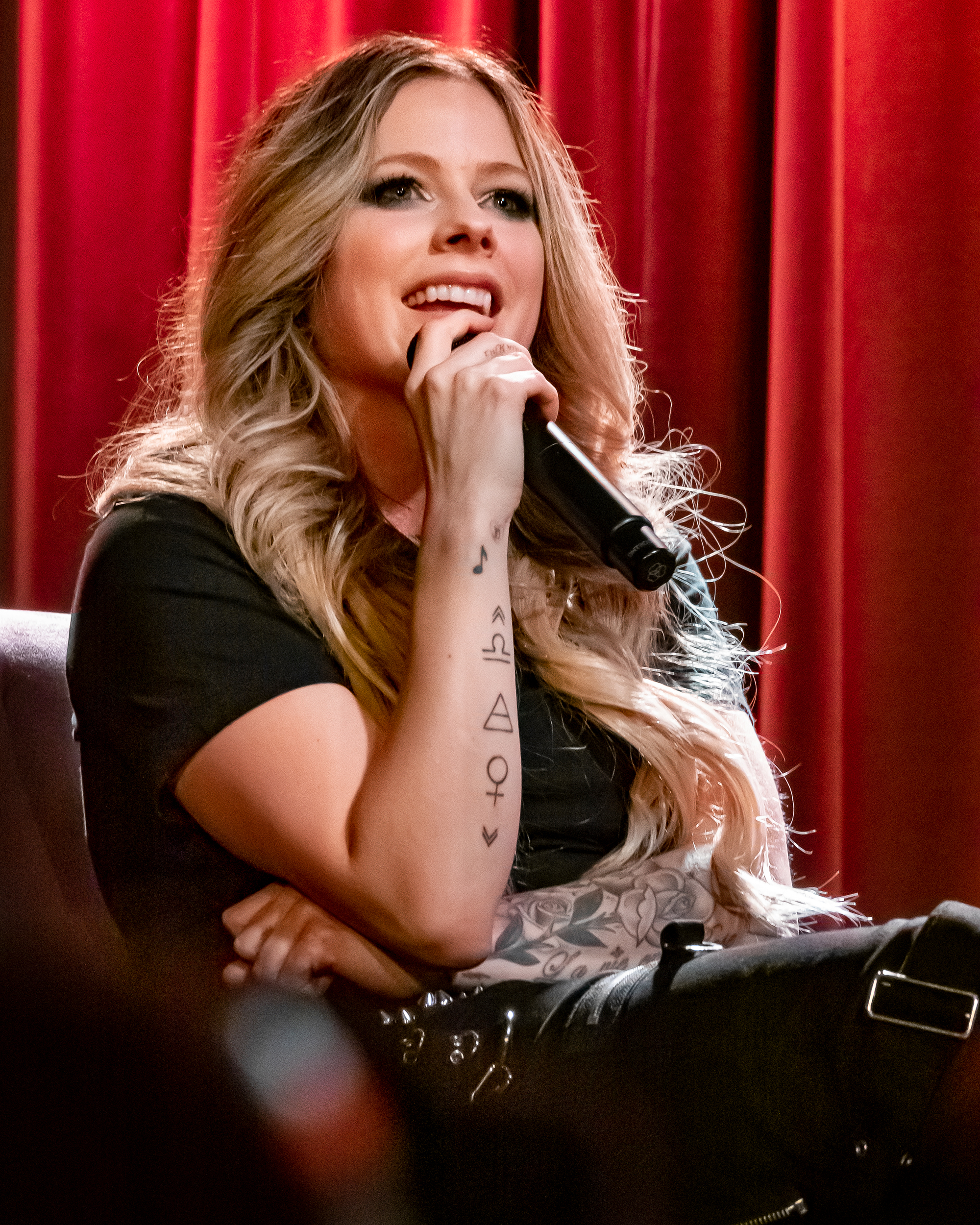 Avril Lavigne performing live at the Grammy Museum in Los Angeles on 09/05/2019.